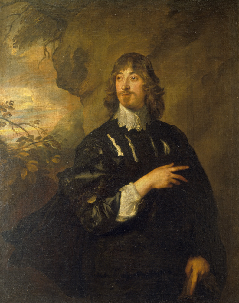 Oil painting on canvas, Henry Percy, Baron Percy of Alnwick (1605-1659) by Sir Anthony Van Dyck (Antwerp 1599 - London 1641). Three-quarter length portrait, turned slightly to the right, head turned to the left, gazing to the left, standing, wearing a black slashed silk doublet with his right hand on his breast against a rock and landscape background.